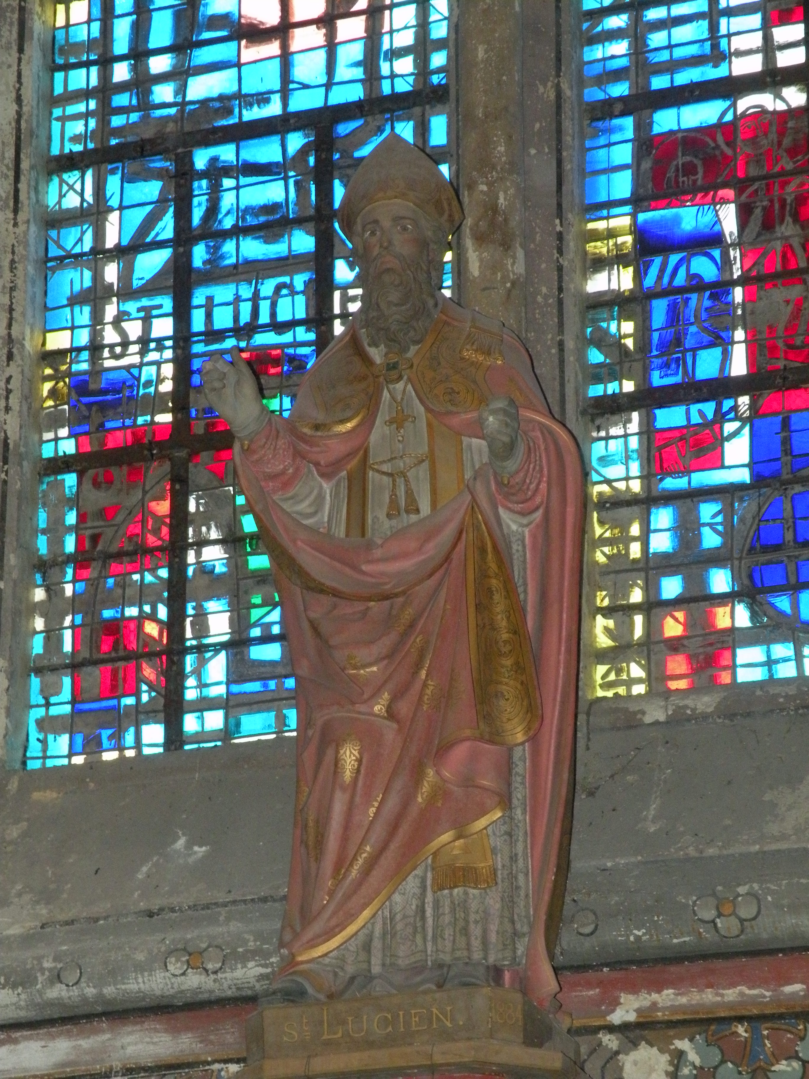 Lucian of Beauvais